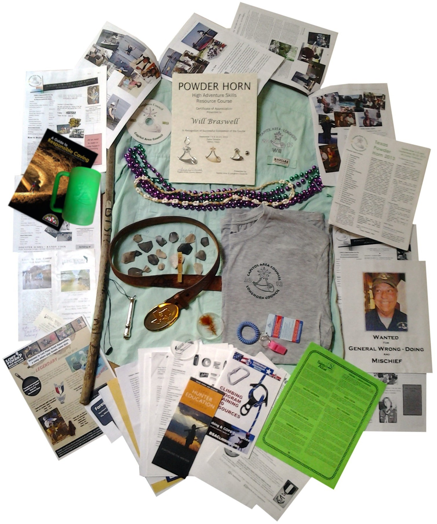 An assortment of Powder Horn items and documentation.